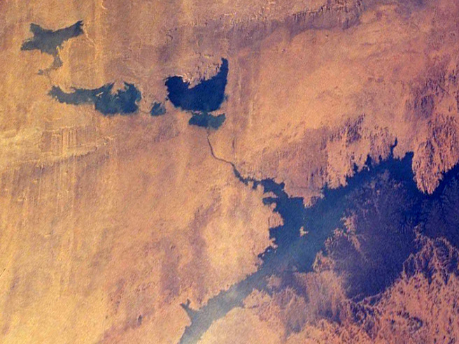 New lakes forming in the Toshka depression of southern Egypt have been monitored by astronauts since 1998. The flooding was first documented to form a new lake in early November 1998. Subsequently, three additional lakes were created by Lake Nasser overflow, as shown in an animation posted to NASA's Earth Observatory. This photograph was taken in December 1999. Estimates of areas of the lakes were made after the images were registered to a common image base. The region will be the location of large Egyptian agricultural developments that will support millions of people.